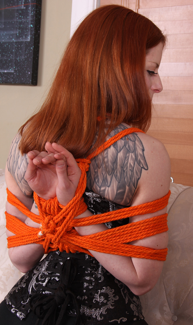 Leila Hazlett bound in a reverse prayer tie.